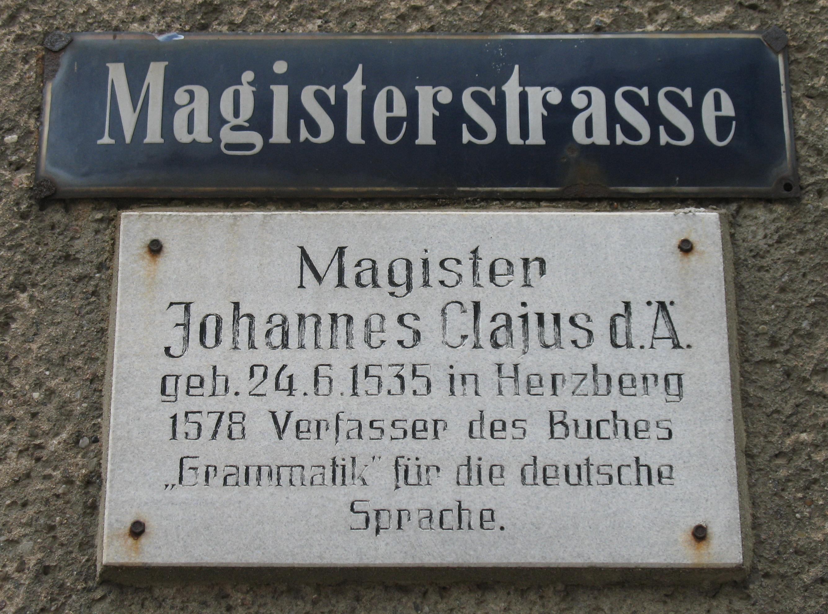 Memorial tablet to Johannes Clajus in Herzberg in Brandenburg, Germany